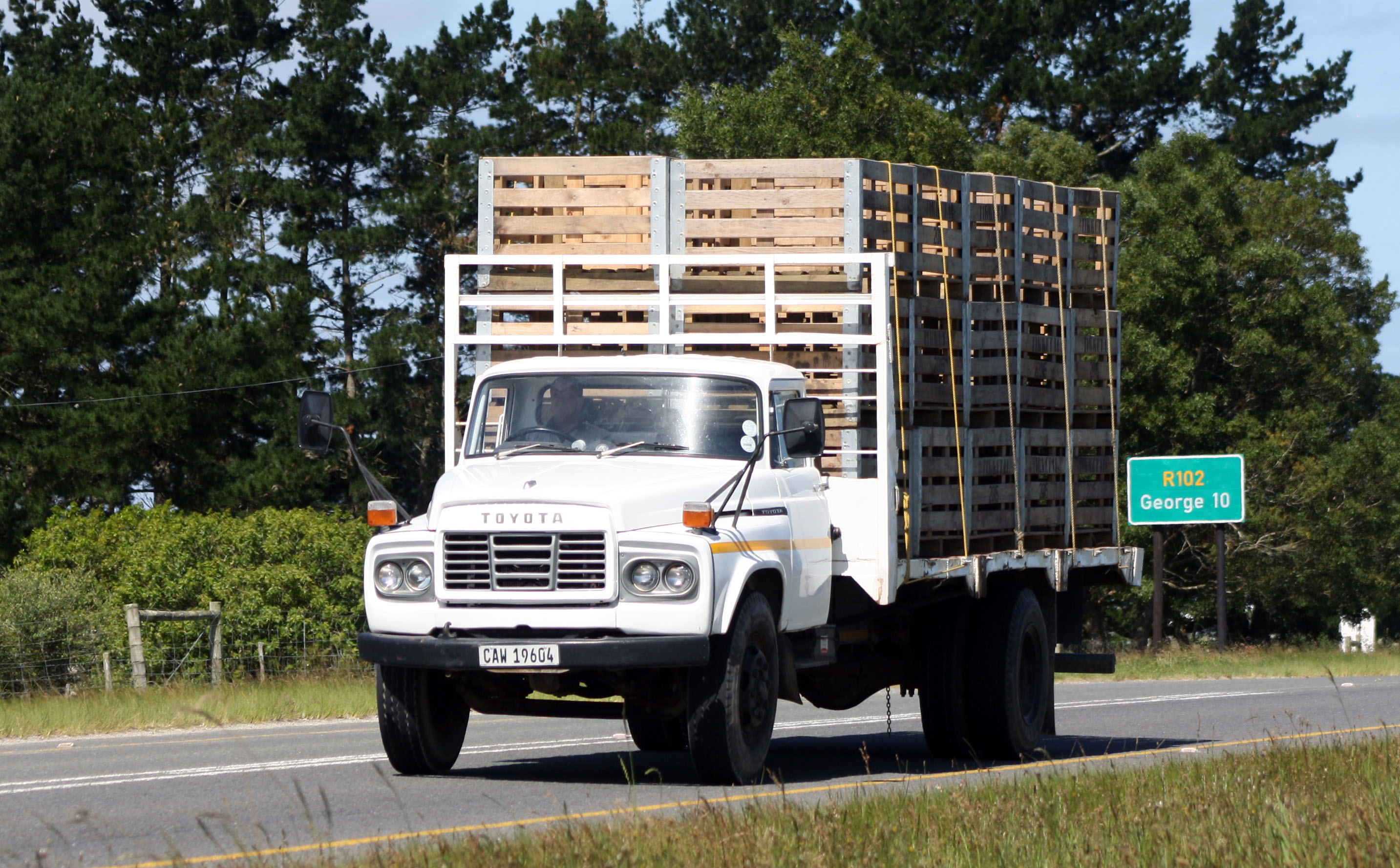 Toyota DA truck in South Africa